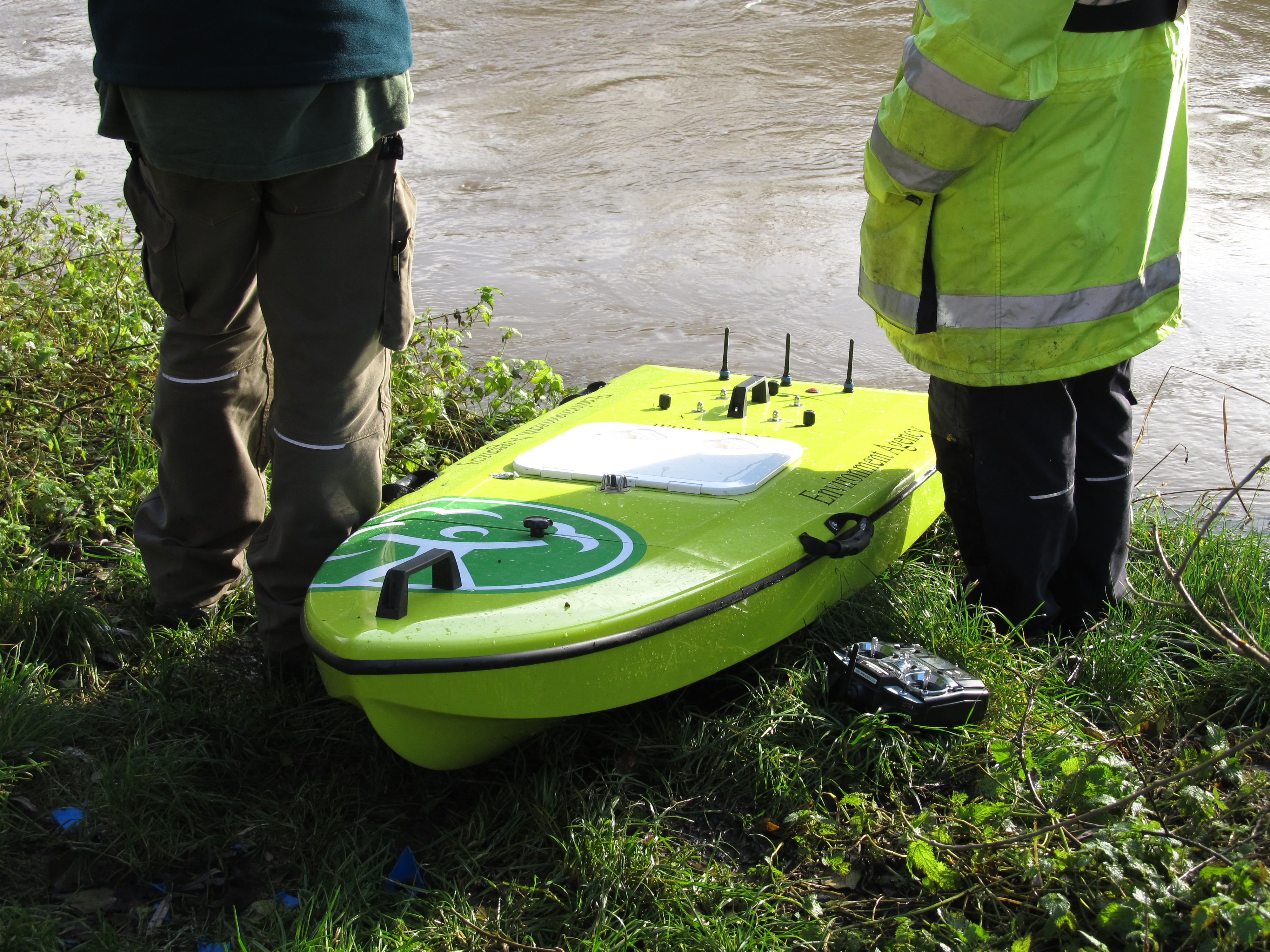 Environment Agency ARC-Boat just landed off the River Avon, Newbridge, Bath. The ARC-Boat is a remote controlled boat that is used to collect river and estuarine data, built by HR Wallingford.[1]